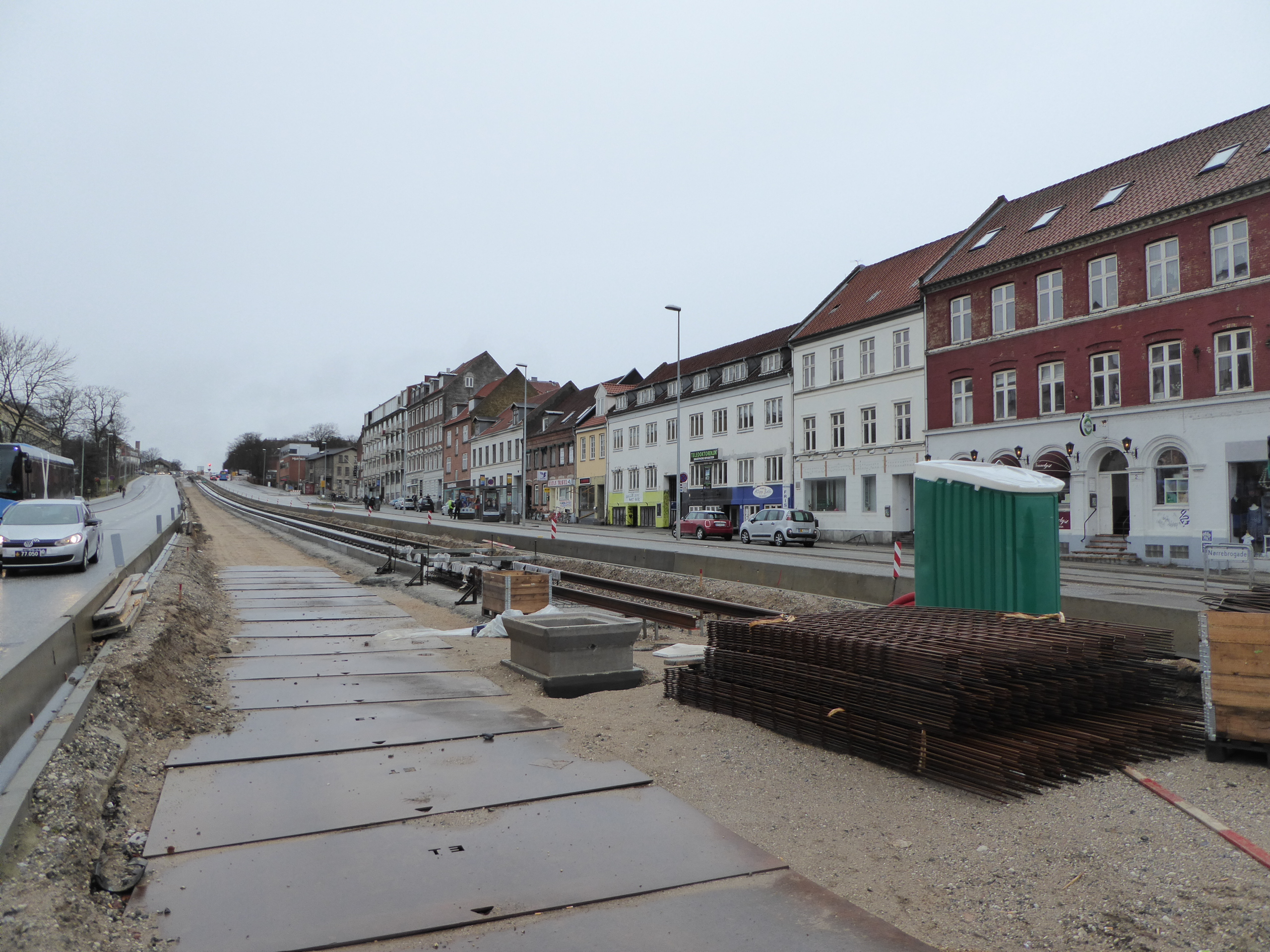 Construction of the light railway Aarhus Letbane on Nørrebrogade in Aarhus in Denmark.